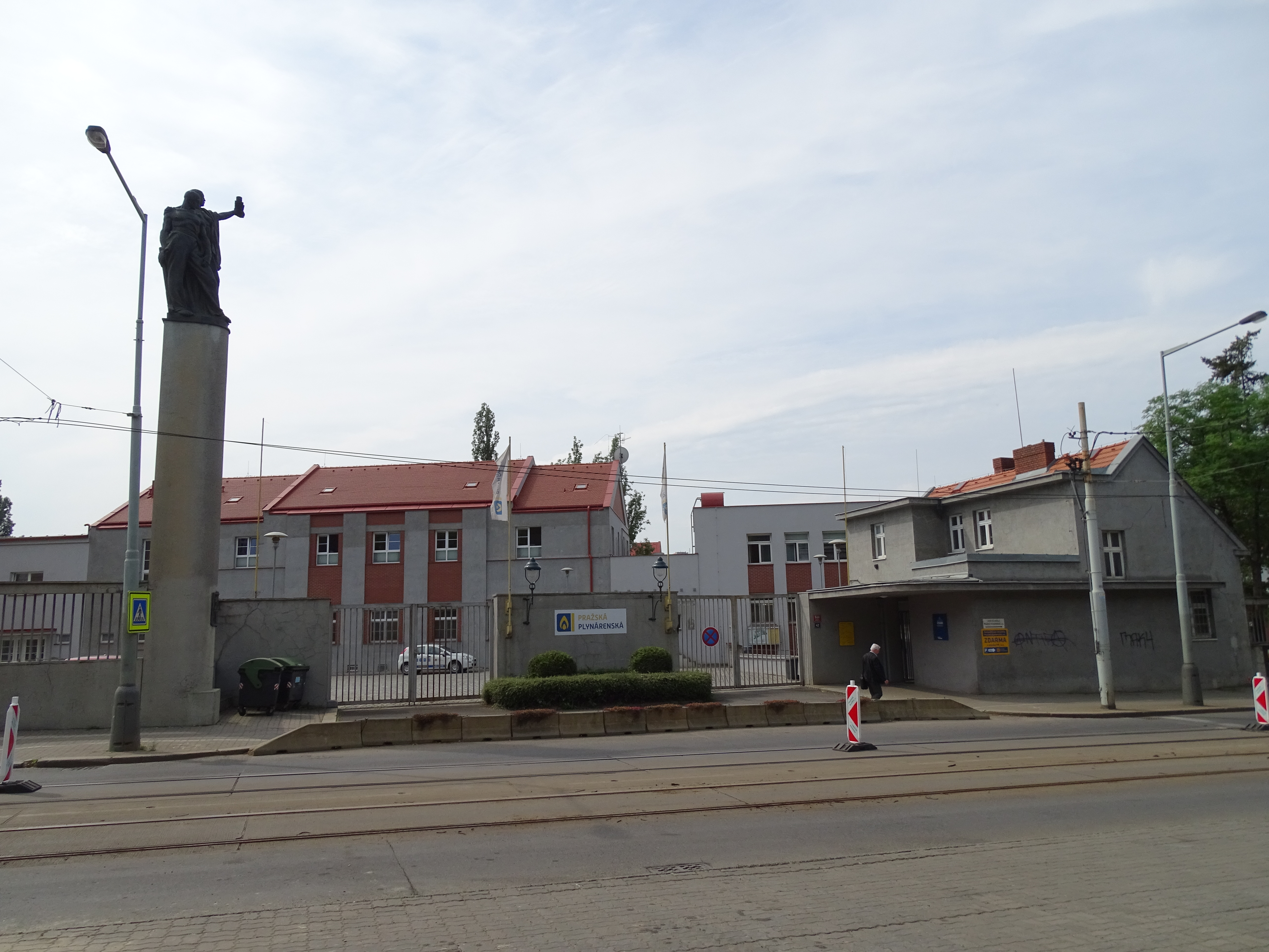 Prague-Michle, Czech Republic. U plynárny street, statues of Science and Labour by Ladislav Šaloun.